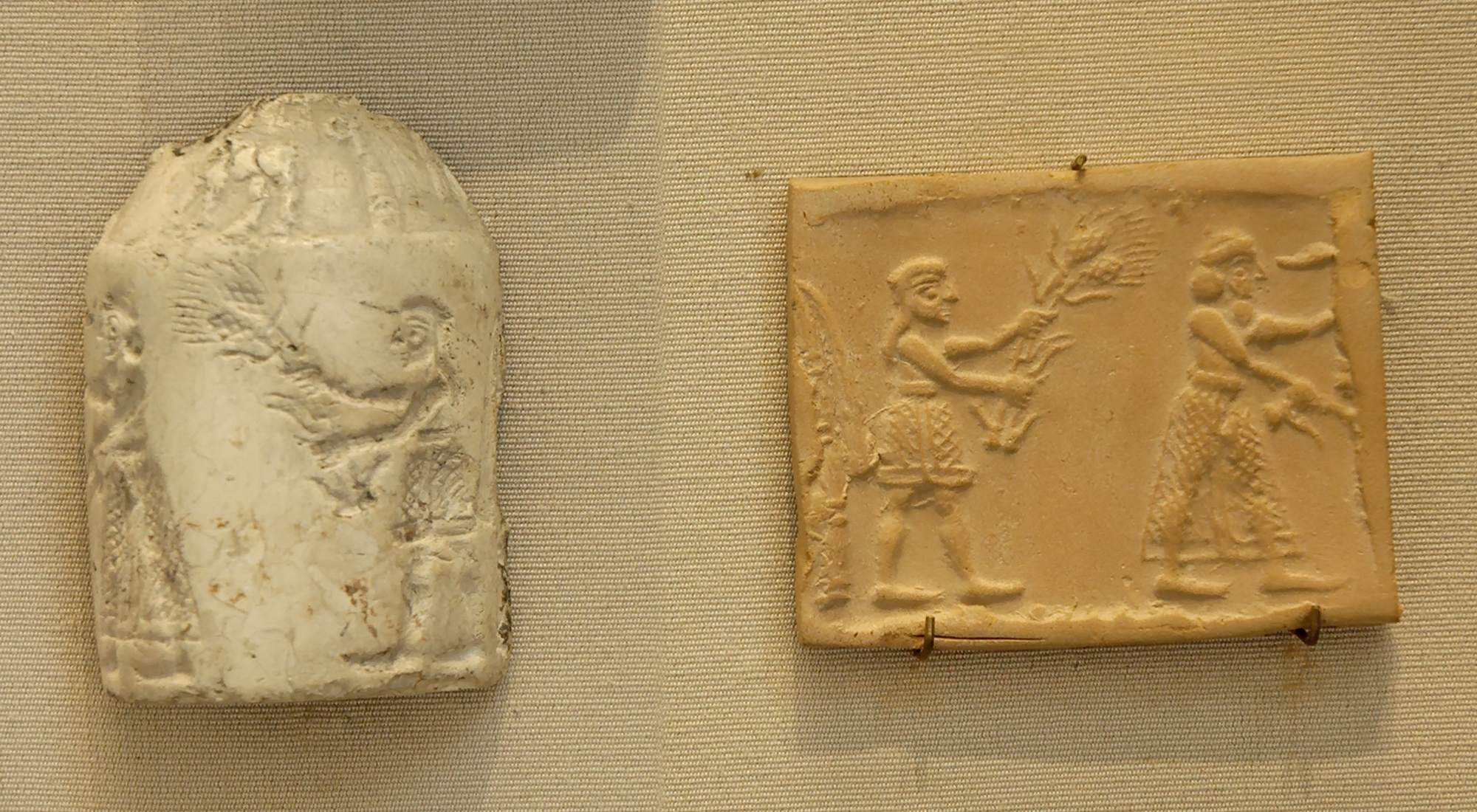 Cylinder seal and sealing impression: the king-priest and his acolyte feeding the sacred herd. White limestone, Uruk period, ca. 3200 BC.